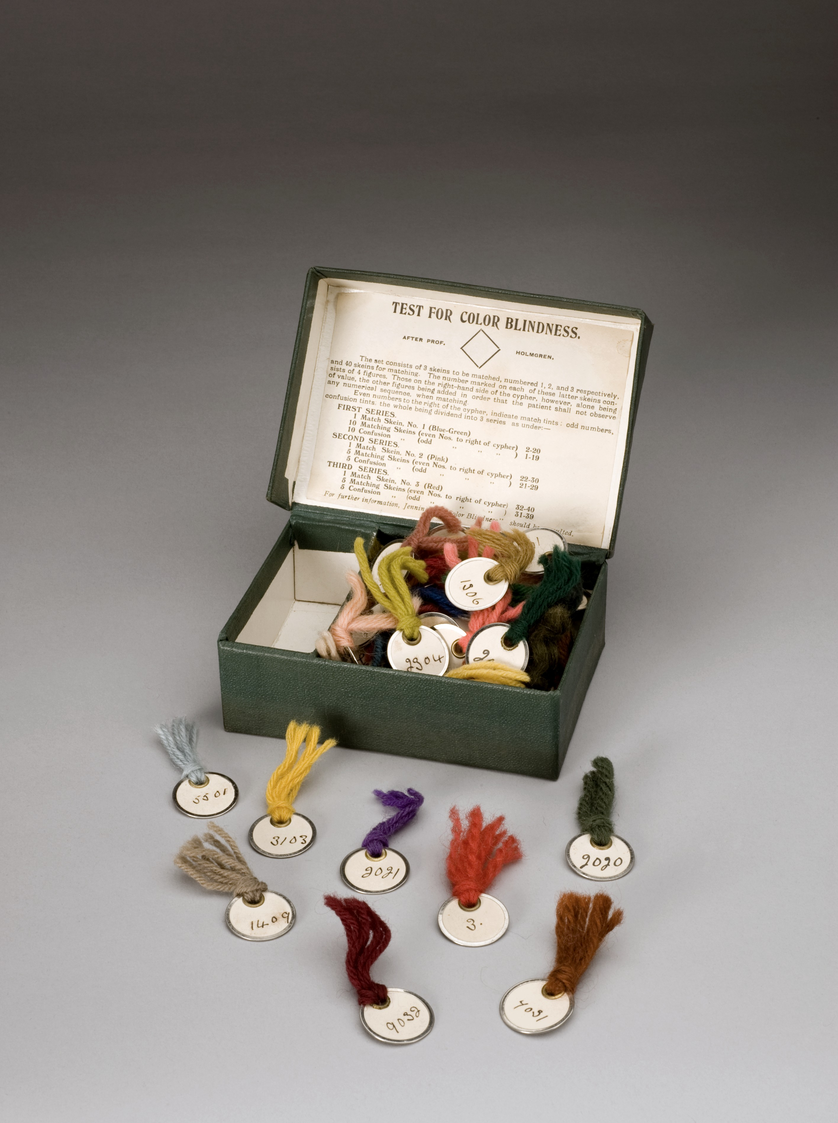 The patient had to match one piece of wool to the samples in the box in this colour blindness test. There are light and dark shades to confuse the patient. This helped detect problems. The numbers on the pieces of wool were codes. The doctor used them to determine what type colour blindness the patient had. Swedish physiologist Alarik Frithiof Holmgren (1831-1897) devised this test in 1874. He pursued his investigations following a railway accident in Sweden in 1876. The accident was believed to be caused by a colour blind train driver. Following Holmgren’s research, colour blindness tests were made compulsory for railway and shipping workers in Sweden. maker: Unknown maker Place made: Europe Wellcome Images Keywords: Ophthalmology; colour blindness test